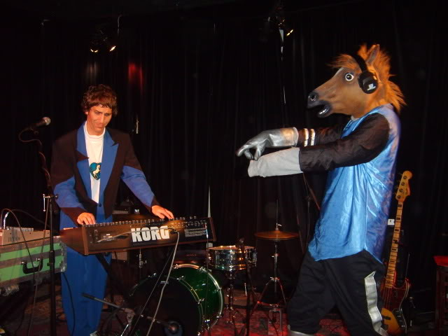 Adam Deibert and Digital Unicorn performing at LeStat's in San Diego on March 14, 2008.